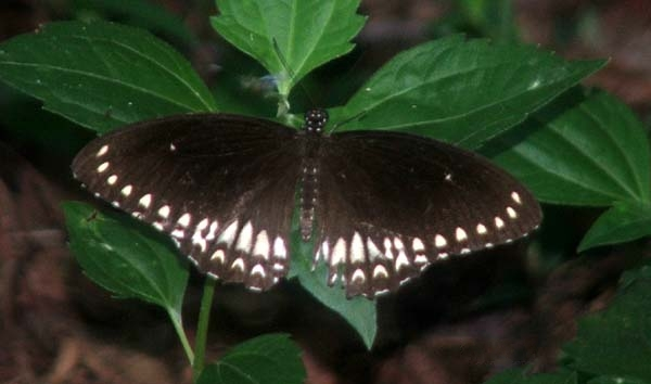 Clicked in Shendurney WLS near Trivendrum, Kerala in June 2007. - Rahul K. Natu